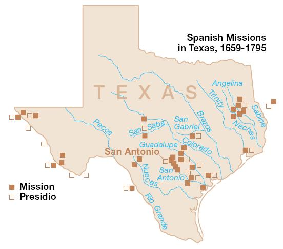 The map depicts the Spanish missions and presidios that were established within the boundaries of present day Texas in the 18th and 19th centuries. The map's range is within the Viceroyalty of New Spain (colonial Mexico), and not limited to the smaller Spanish colonial Province of Tejas (Texas) boundaries. This is a product of the US National Park Service, and was taken from the website